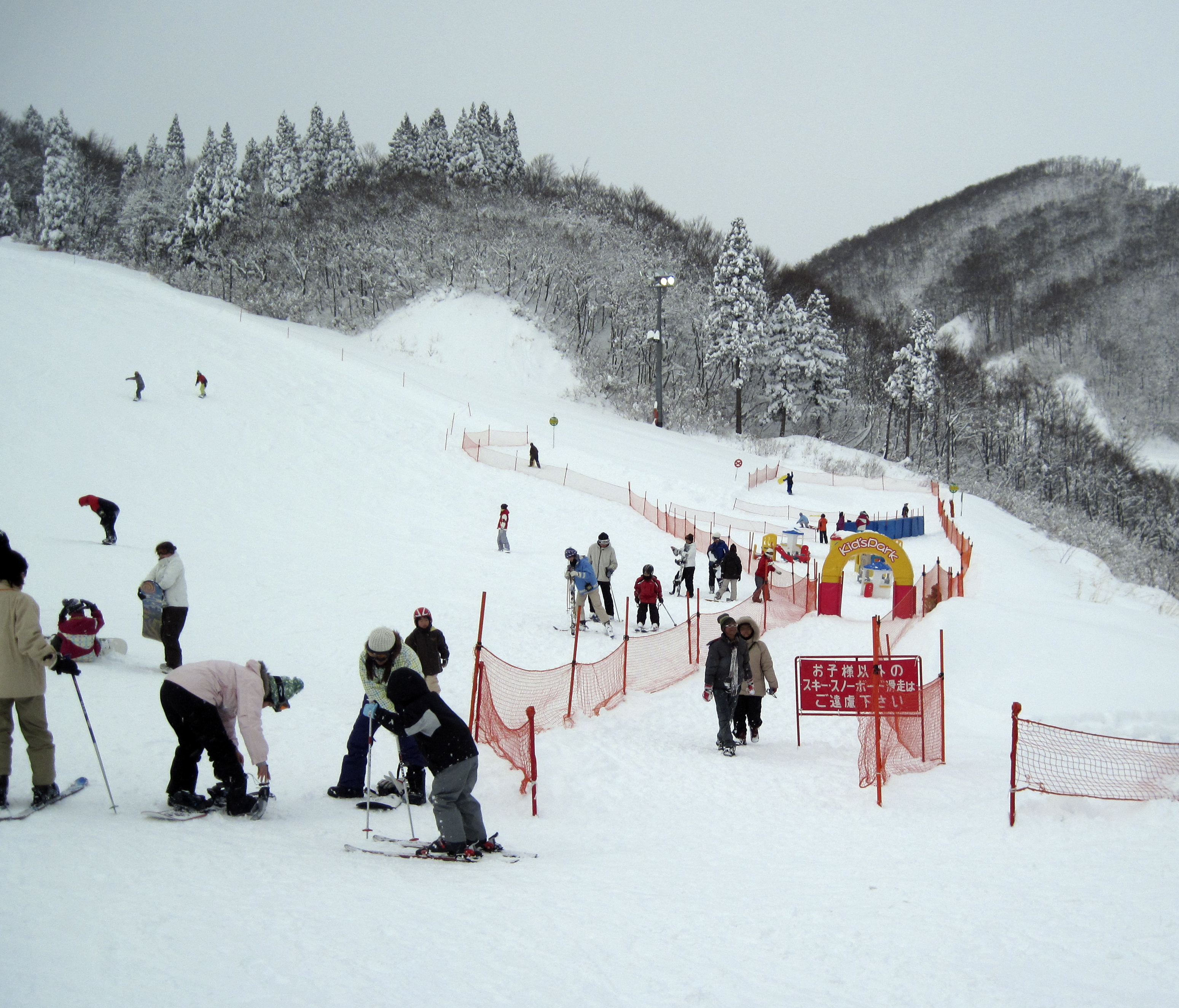 Gala Yuzawa ski resort.